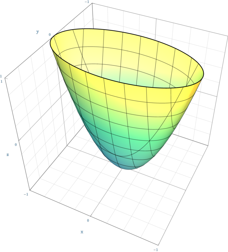 A paraboloid. Made with Mathematica.